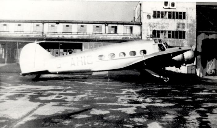 Railway Air Services Avro Anson G-AHIC at Manchester (Ringway) Airport